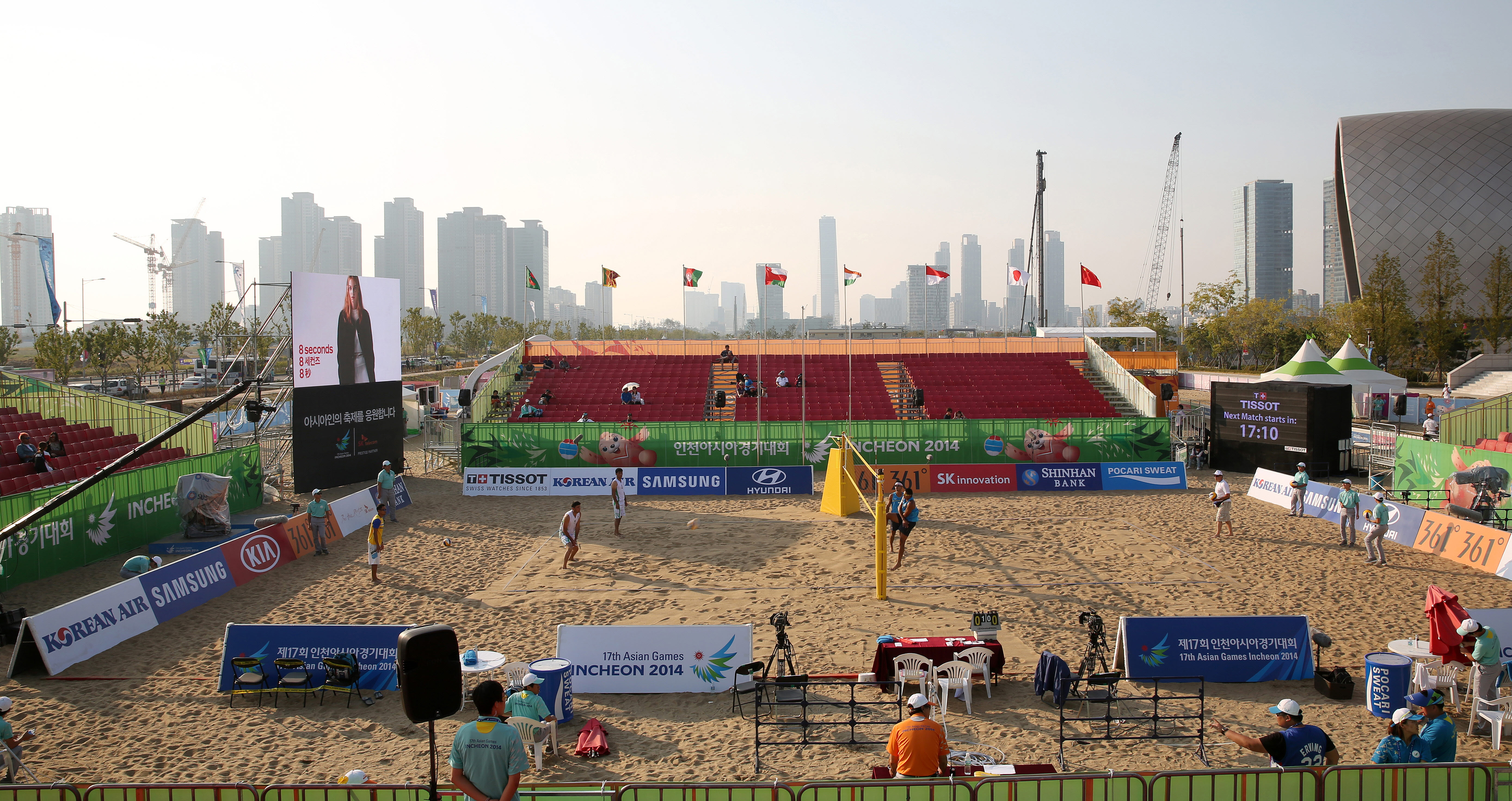 Incheon_AsianGames_Beach_Volleyball_20140920_06 Incheon Asian Games 2014 Men’s Beach Volleyball Thailand vs Tadzhikistan September 20, 2014 Songdo Global University Beach Volleyball Venue, Songdo, Incheon-si Ministry of Culture, Sports and Tourism Korean Culture and Information Service ( Official Photographer : Jeon Han This official Republic of Korea photograph is CC-BY-SA-2.0-licensed, so while restrictions such as personality or privacy rights may apply, in general, manipulations are allowed. If you require a photograph without a watermark, please use Flickr e-mail.